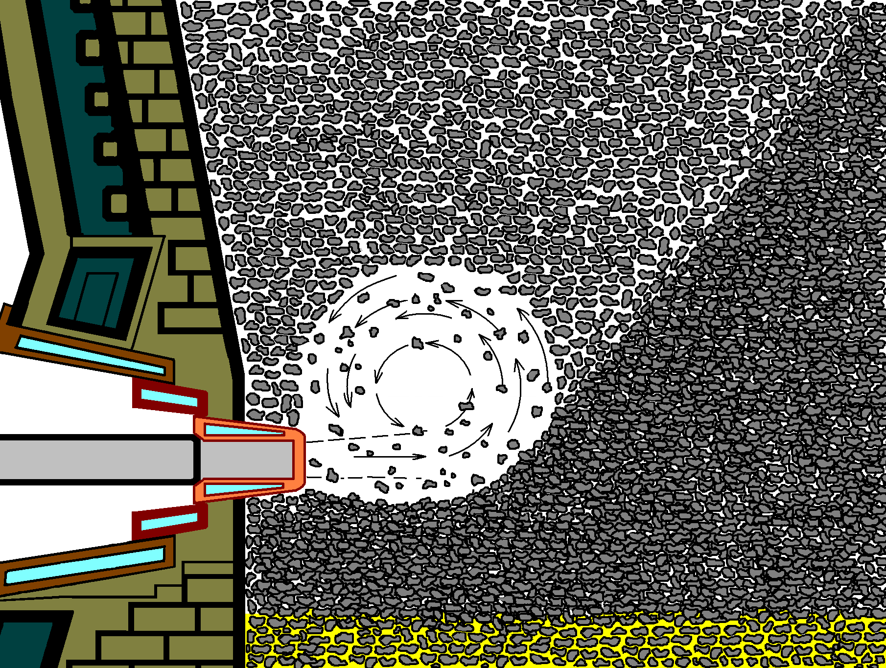 The raceway, hurtling coke particles, in a blast furnace, gorizontal section.